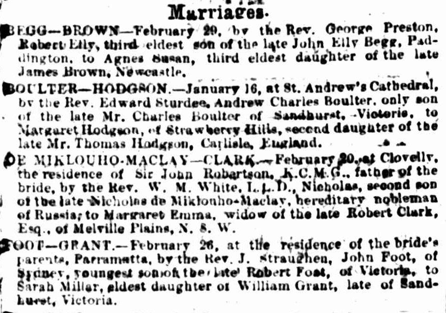 Miklouho-Maclay - Clark marriage, The Sydney Morning Herald, Wednesday 5 March 1884